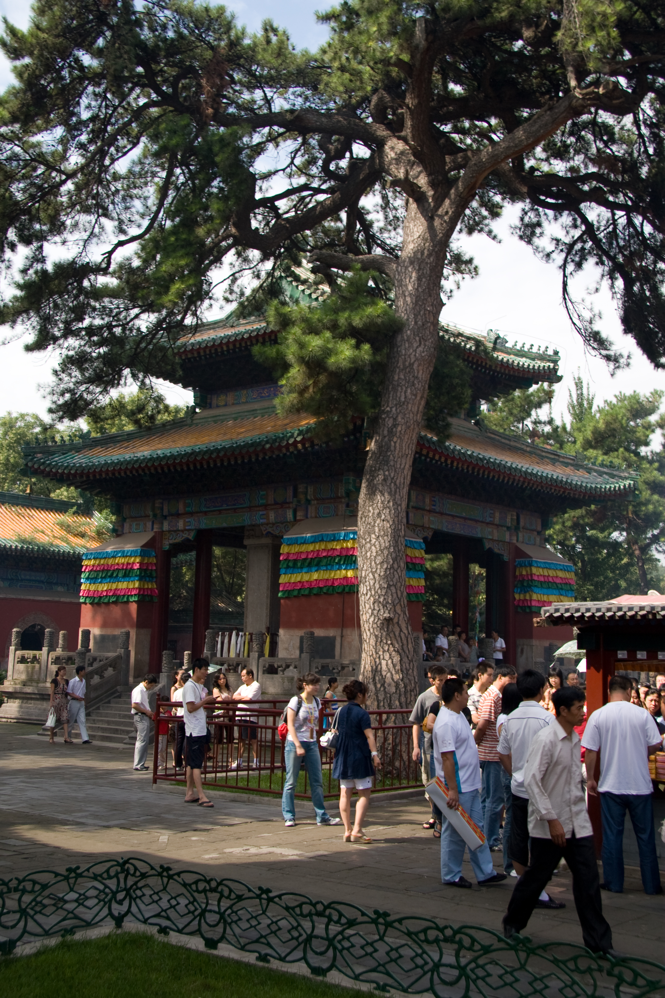 Chengde, China